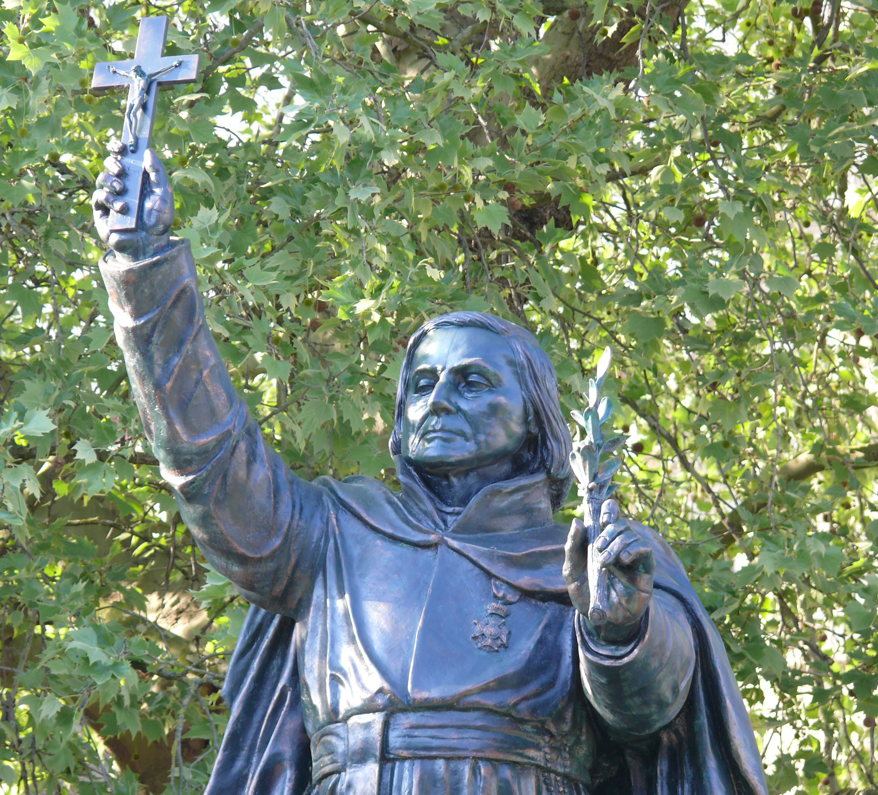 Statue of father Pieter-Jan De Smet s.j. in his hometown Dendermonde. The statue was made after a design of Charles Auguste Fraikin (Herentals 1817-Schaarbeek 1893) and was erected in 1879. In 1982 corrosion had destroyed the inner structure to such a degree that the statue fell off of its pedestal. The present statue is a faithful polyester copy of the original.